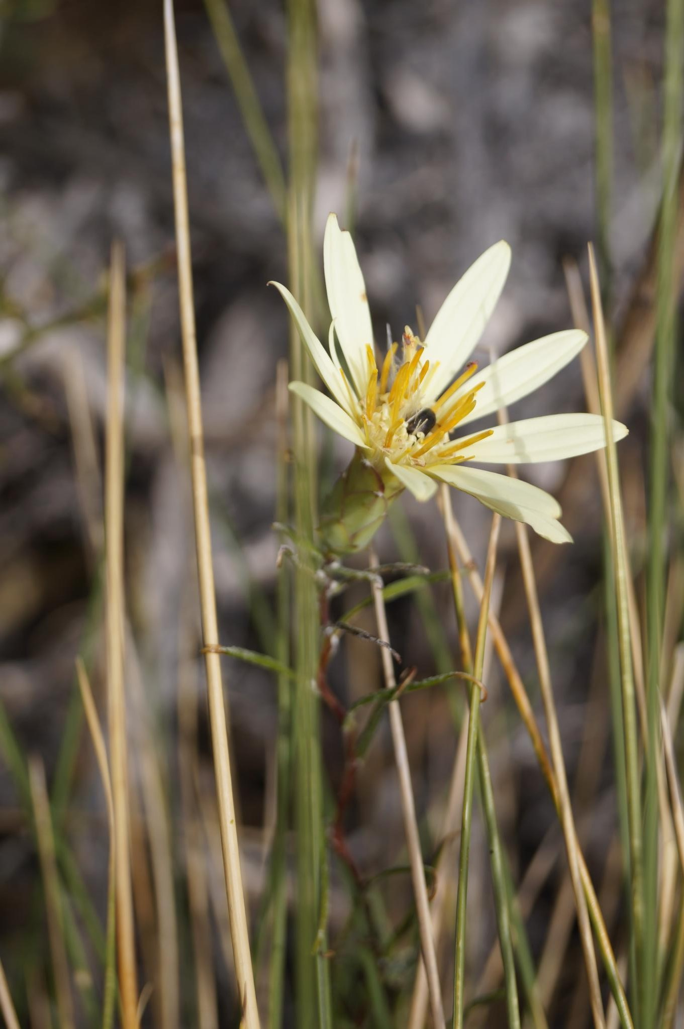 Mutisia acerosa